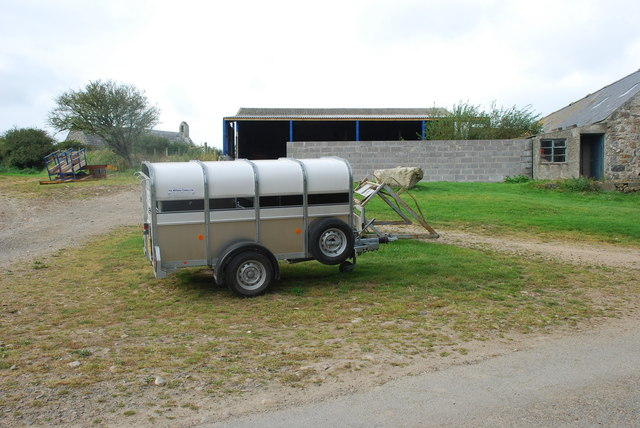 Ôl-gerbyd Ifor Williams Trailer A new Ifor Williams sheep trailer at Plas ym Mhenllech.